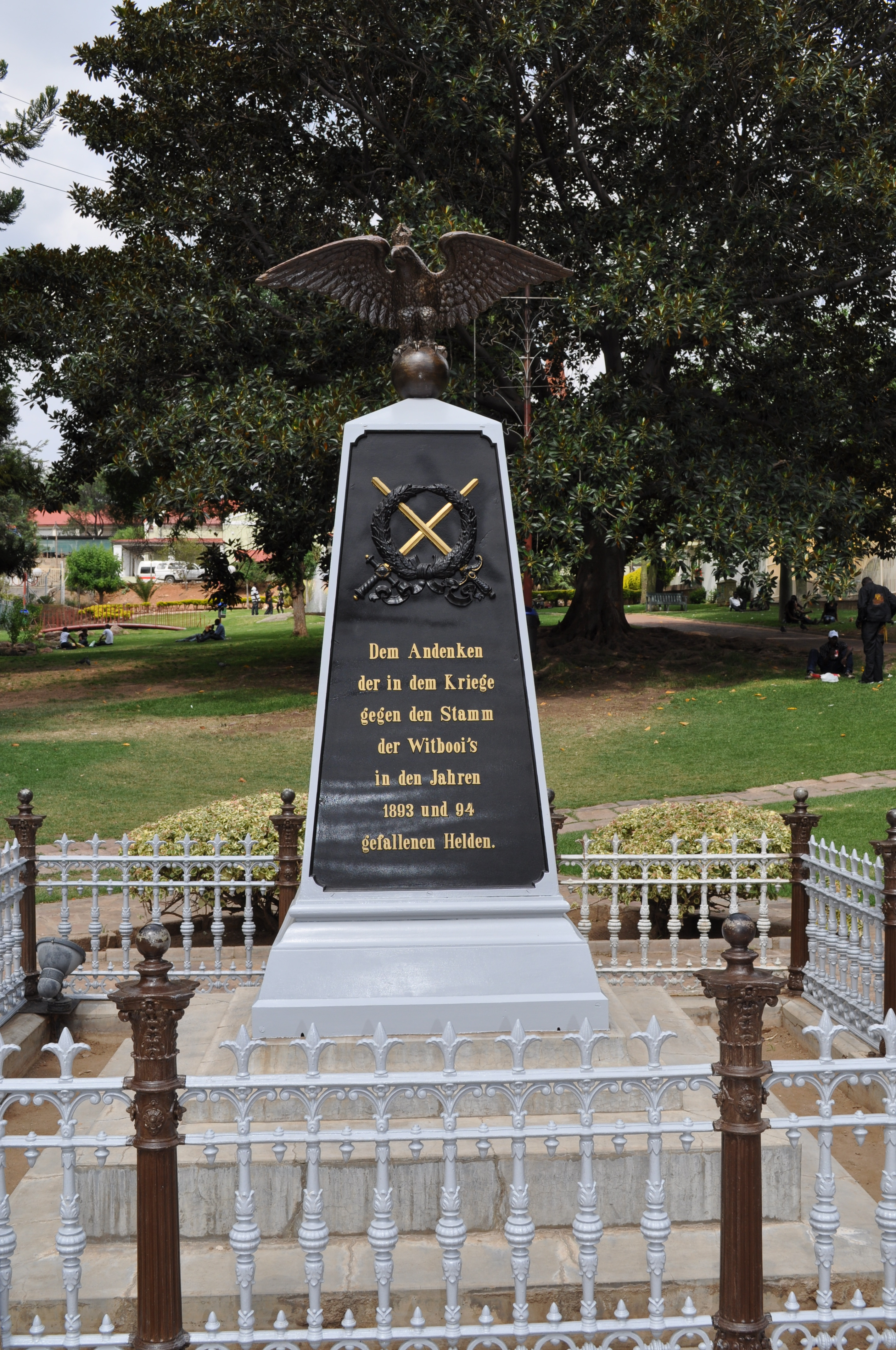 Another memorial (in Windhoek's Zoo Park) commemorating German colonial troops killed in the 1893-94 war with the Namas. Note the iconic German eagle arms on top.